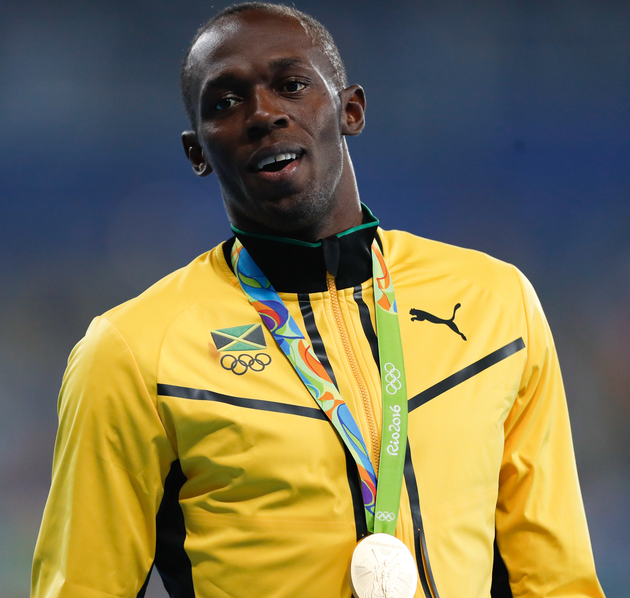 Rio de Janeiro - Usain Bolt recebe medalha pela vitória nos 200m rasos nos Jogos Rio 2016, no Estádio Olímpico. (Fernando Frazão/Agência Brasil)